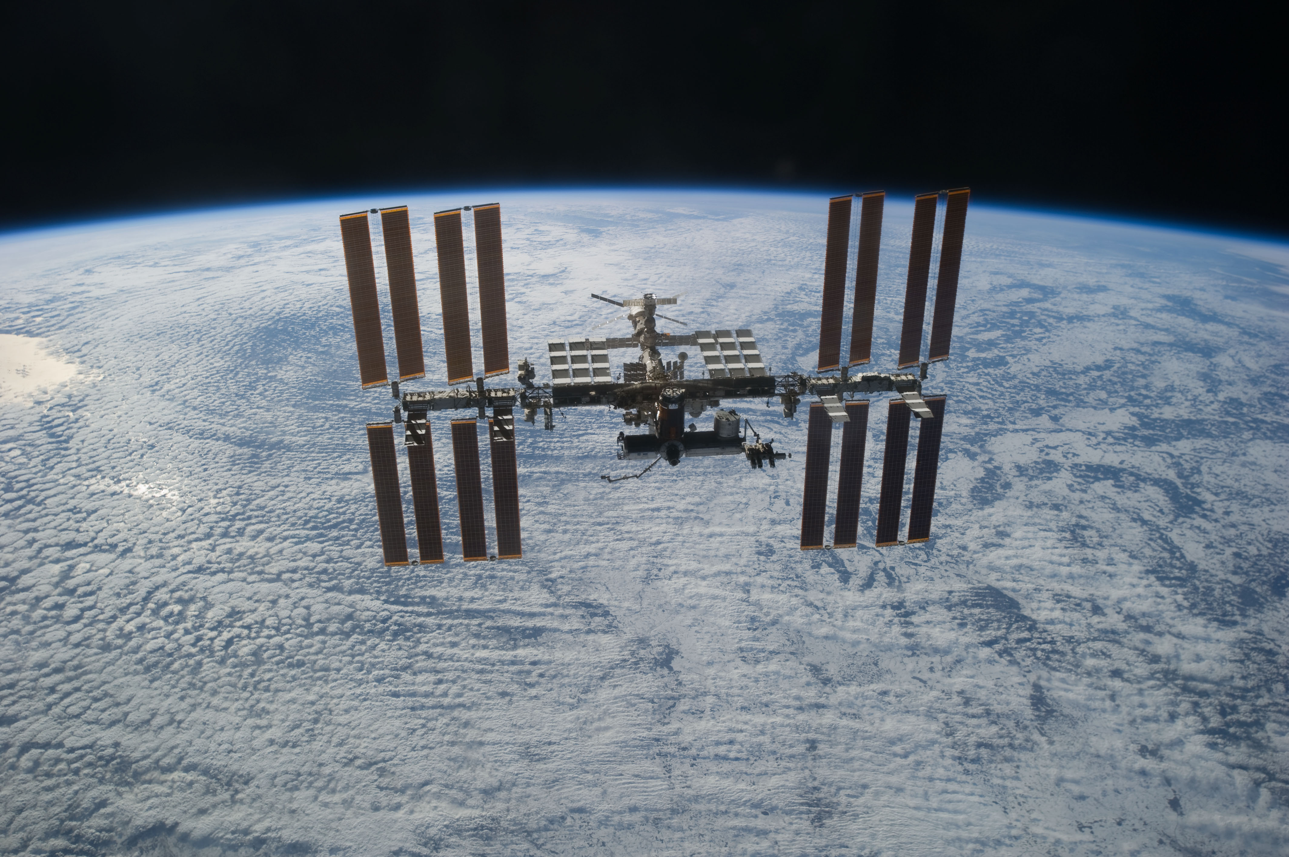 Backdropped against clouds over Earth, the International Space Station is seen from Discovery as the two orbital spacecraft accomplish their relative separation on March 7 after an aggregate of 12 astronauts and cosmonauts worked together for over a week. During a post undocking fly-around, the crew members aboard the two spacecraft collected a series of photos of each other's vehicle.